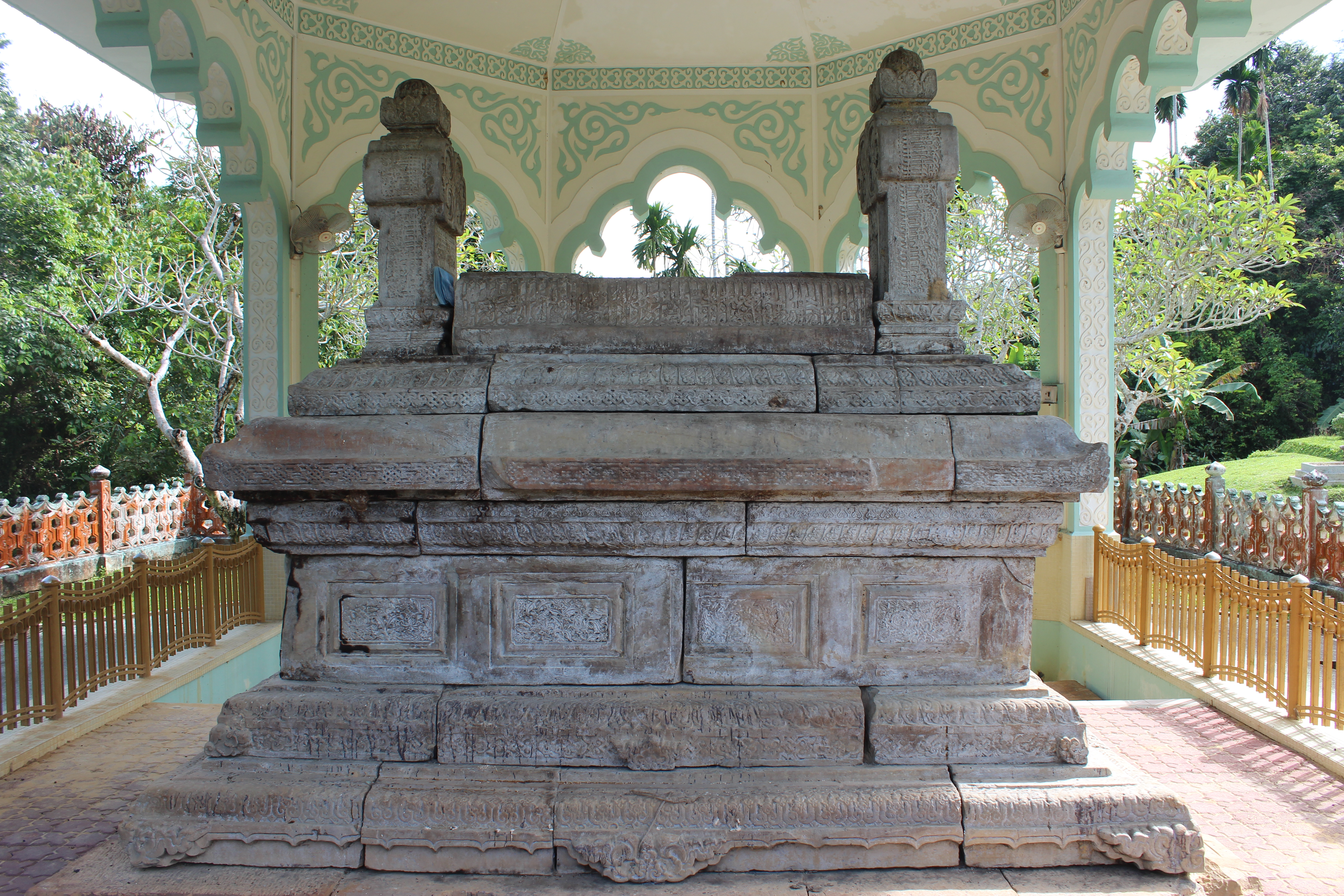 Mausoleum of Sultan Bolkiah